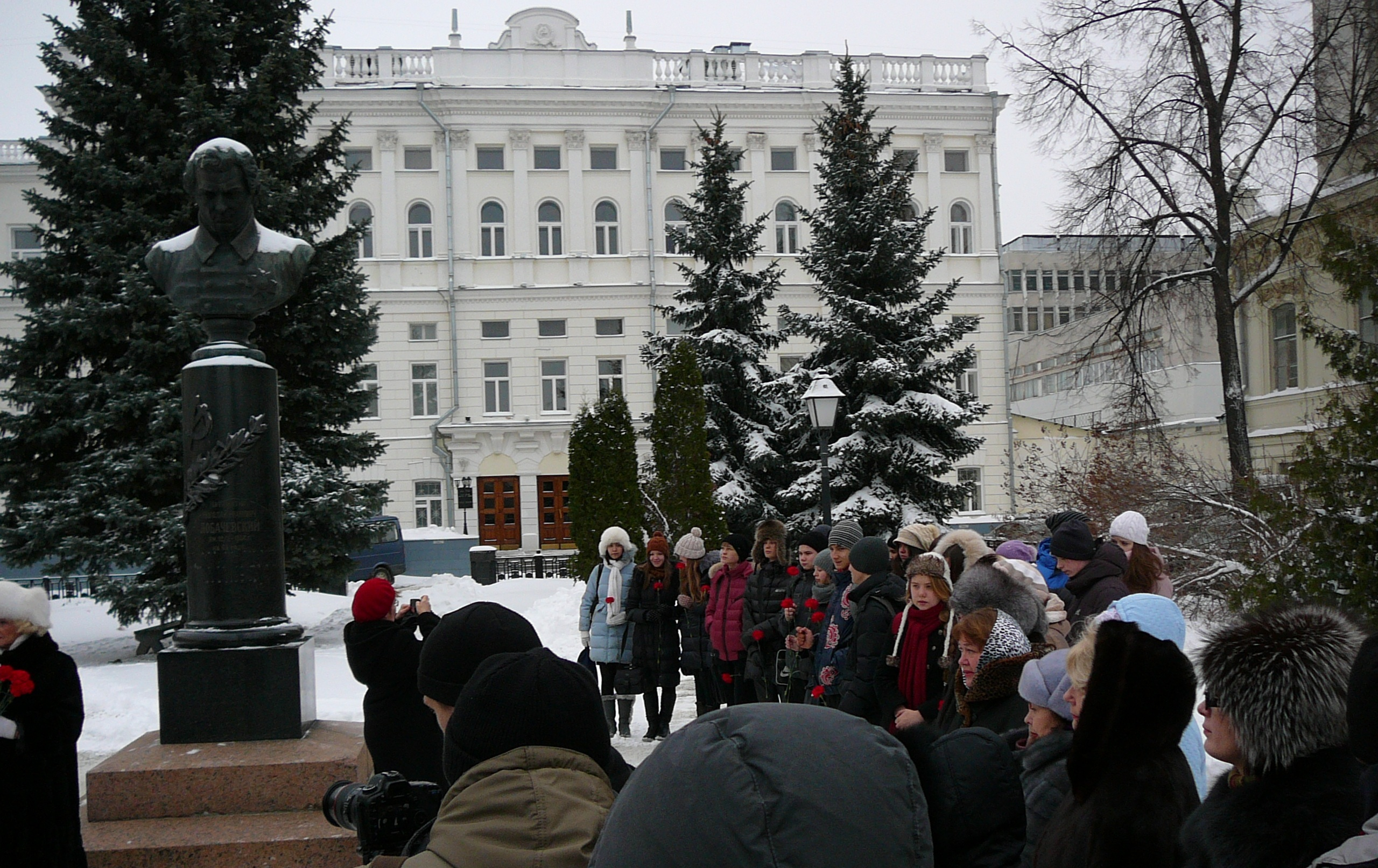 Annual celebration of Lobachevsky's birthday by participants of Volga's student Mathematical Olympiad, 1st december 2011, Kazan